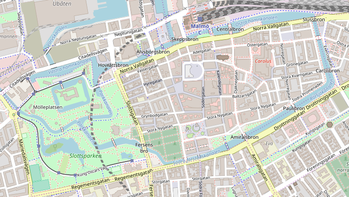 OpenStreetMap section showing center of Malmø, Sweden. Generated on 2018-03-20 in scale 1:20000 with Swedish street names shown. URL